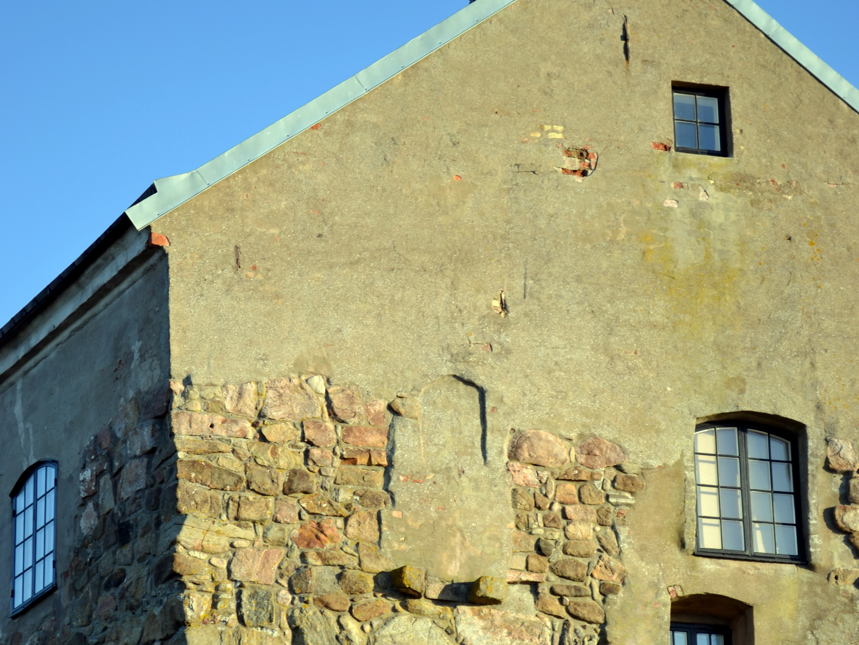 Varberg Fortress, northern wing of the castle, west side, with the remains of the privy where Marcus Meyer let the enemy in, March 1535, during the Count's Feud.